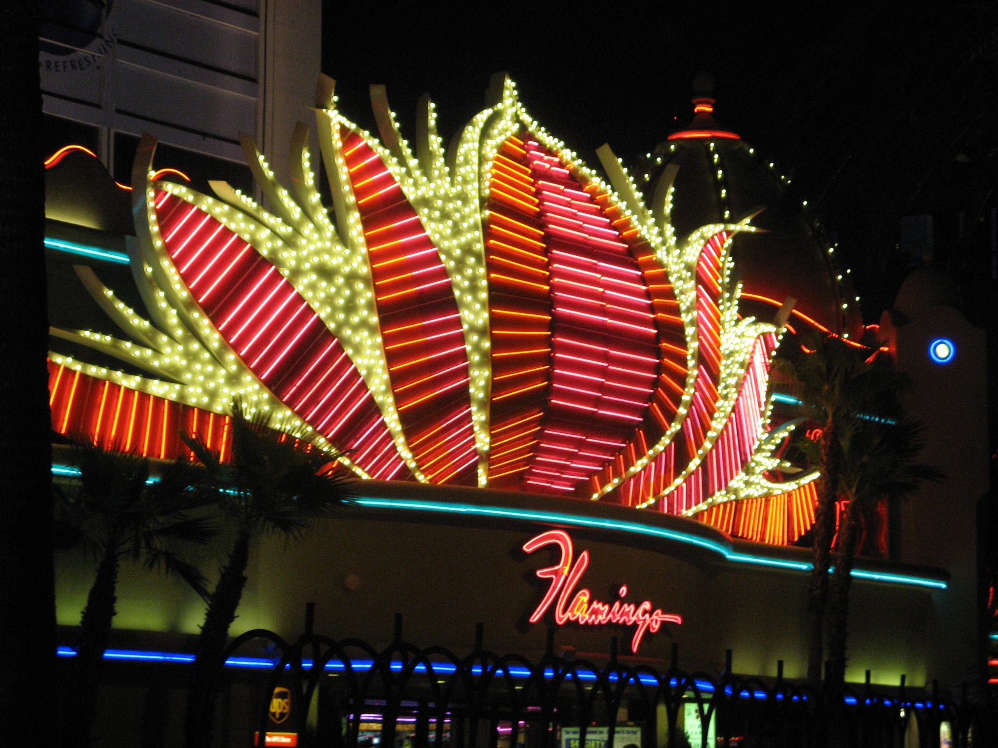 The Flamingo